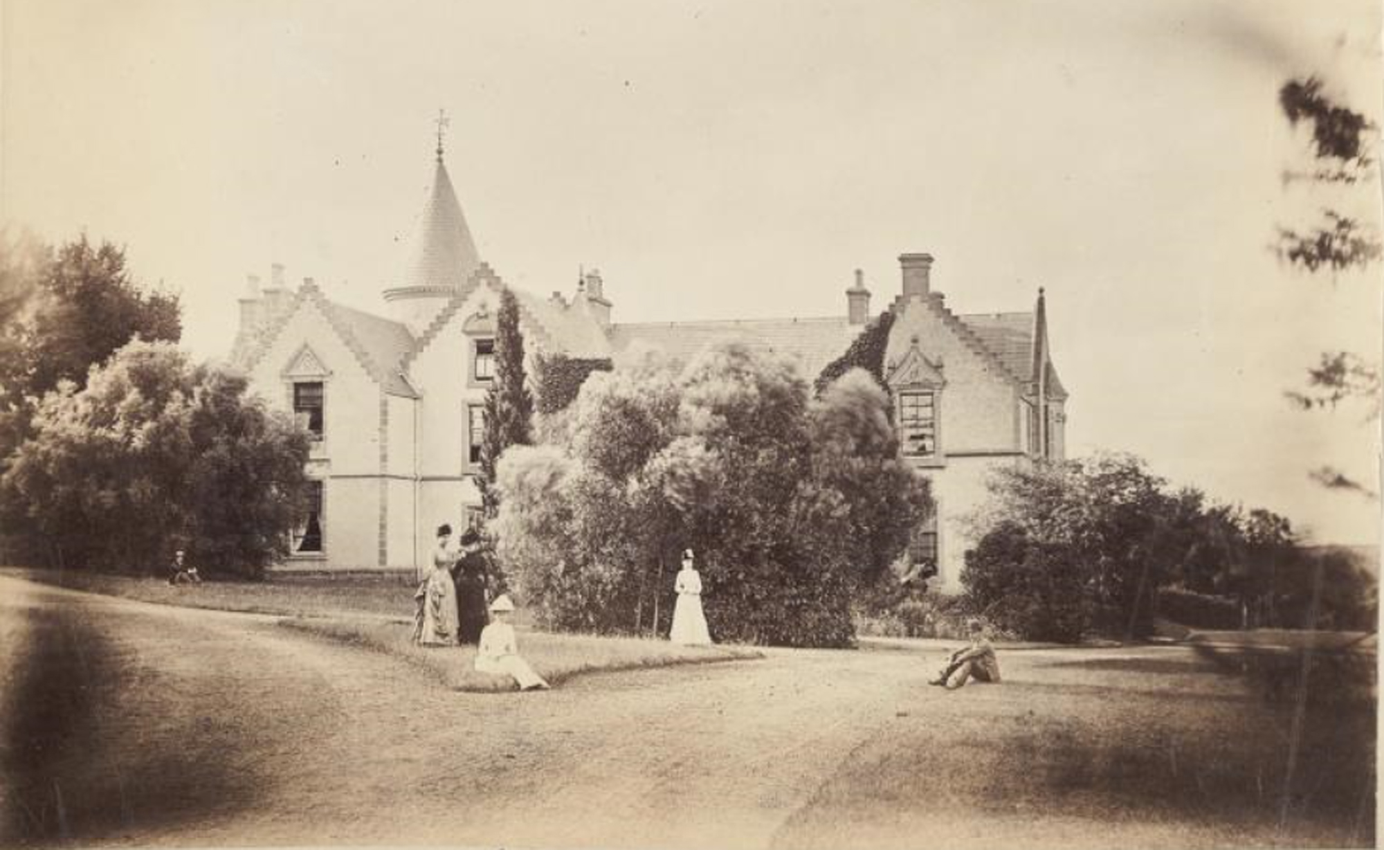 Overnewton Castle, Keilor in 1887